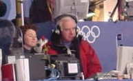 Don Wittman broadcasting the 2002 Winter Olympics cropped from by UncleWeed - Dave Olson